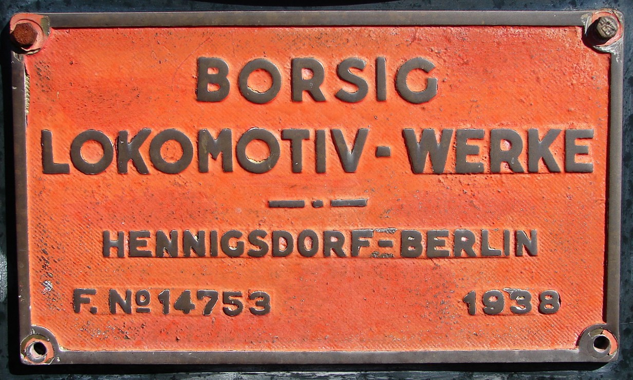 SAR Class 19D 2702 (4-8-2) builder's plate Builder's Number: Borsig 14753 Tender: Type MX Location: Capital Park, Pretoria, Gauteng